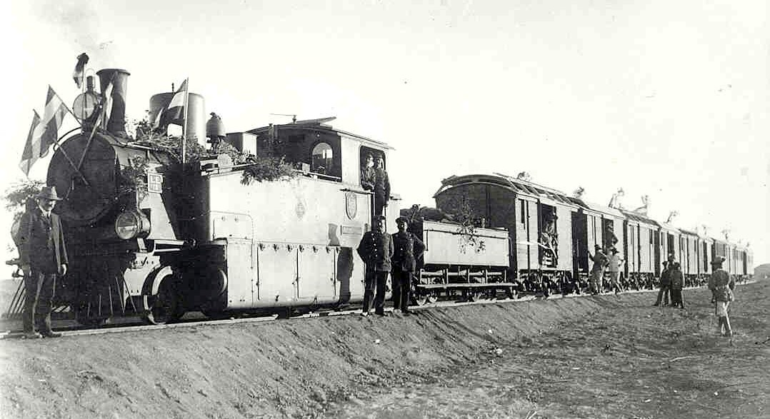 Eight-coupled tank at Seeheim during the opening of the Lüderitz Railway